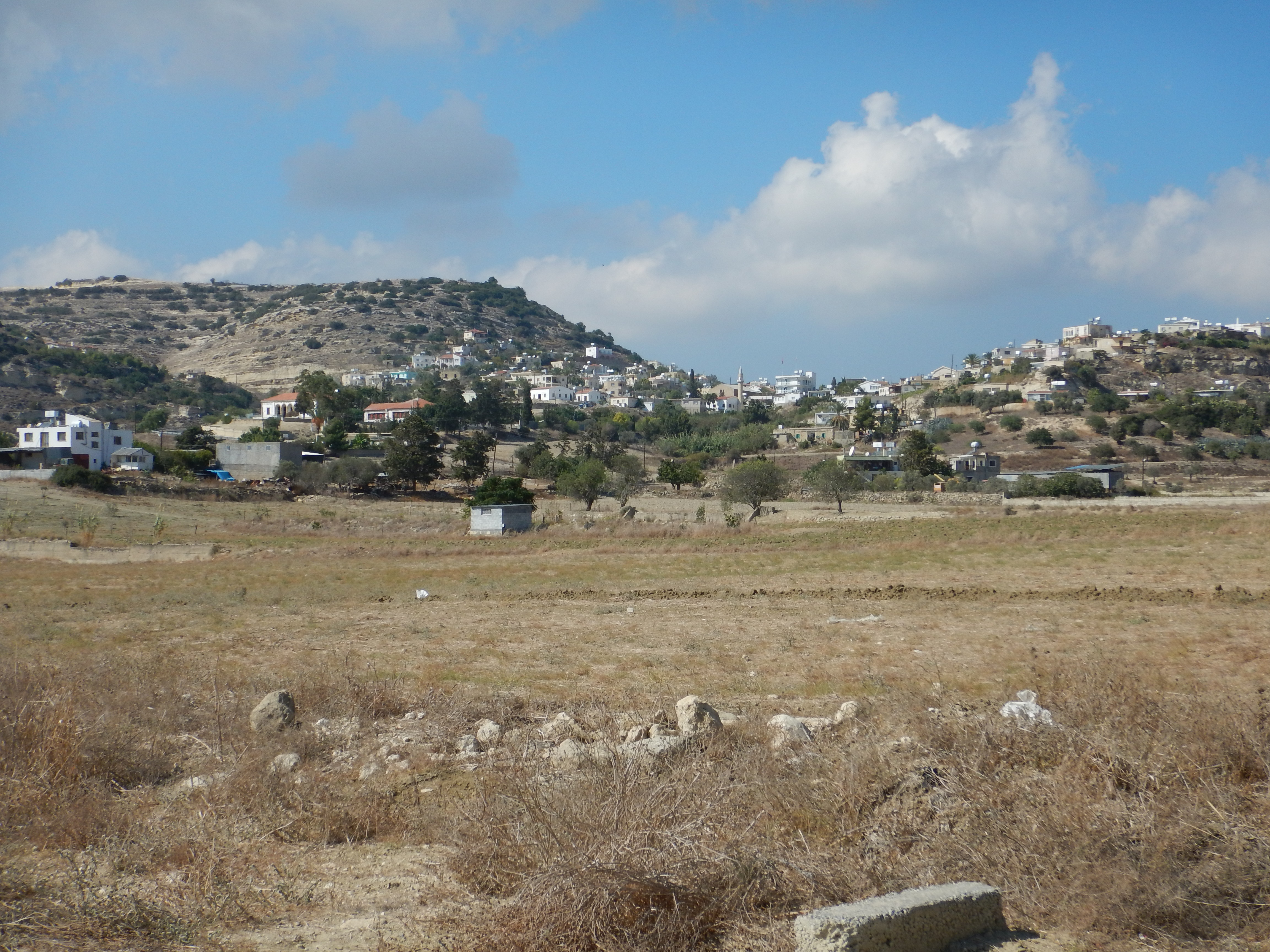 View of the Turkish Cypriot village of Kaleburnu (Greek Galinoporni) in Northern Cyprus, one of the few villages of the island inhabited by Muslims before 1974